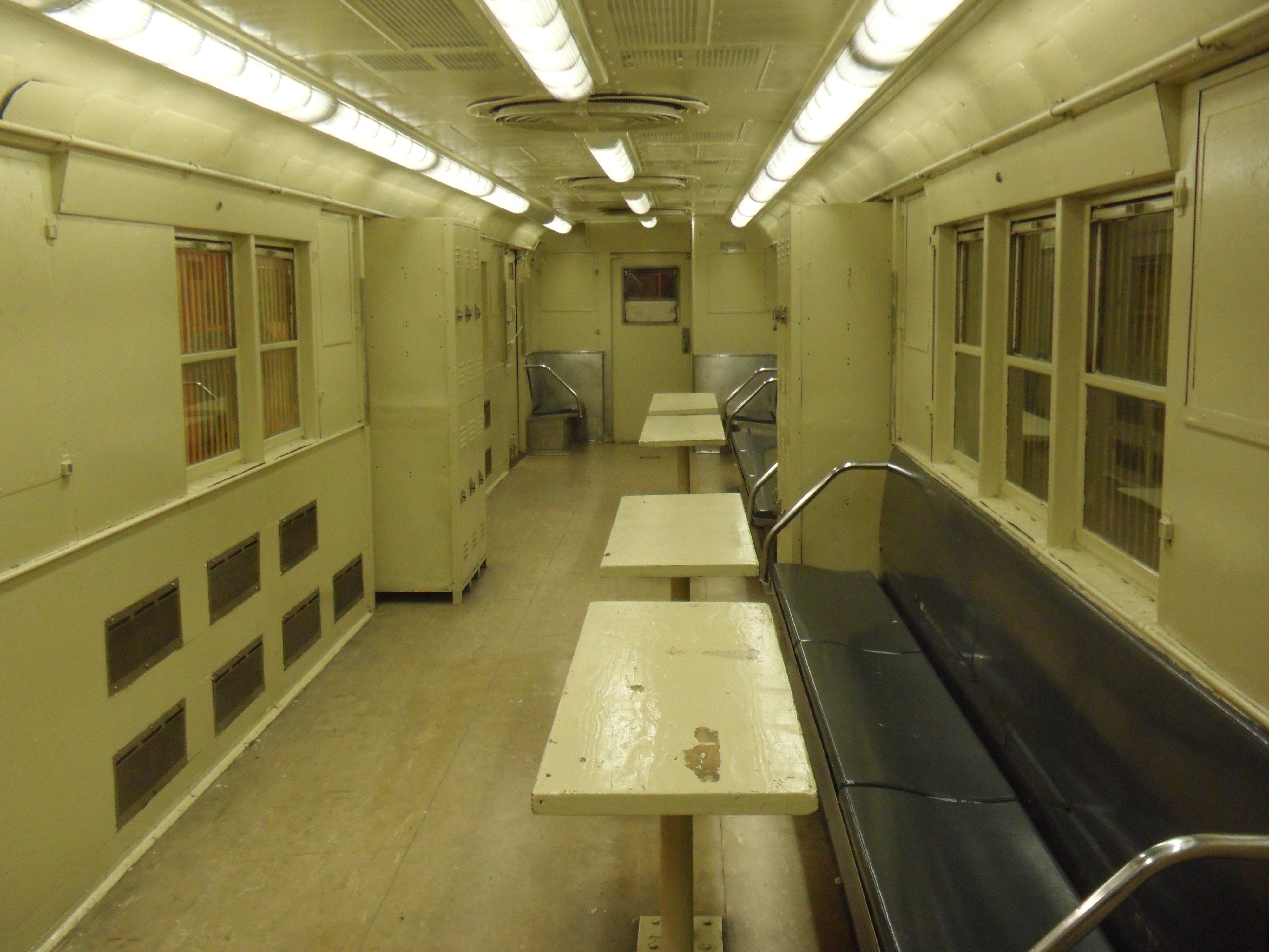 Interior of work car at the New York Transit Museum